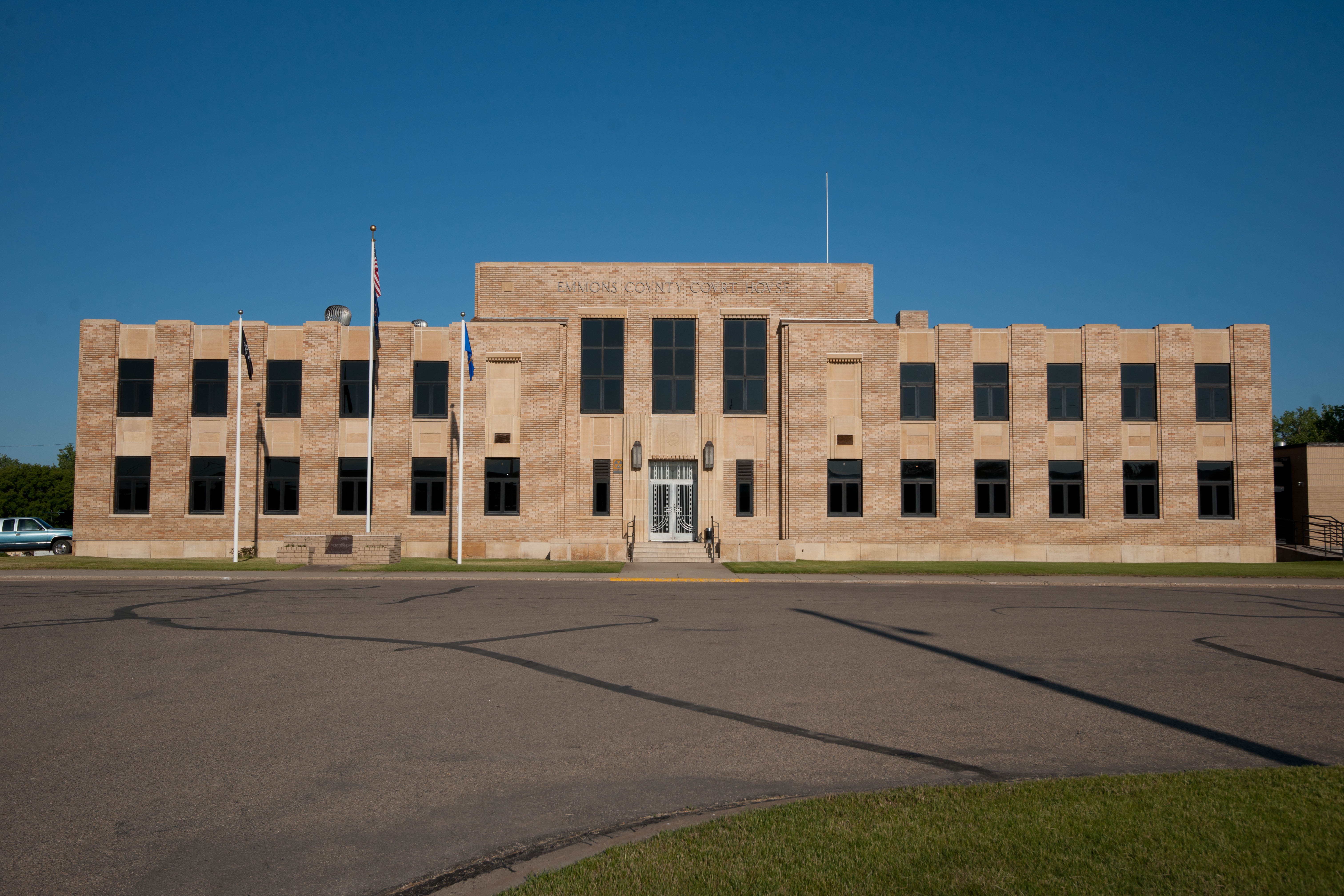 Emmons County Courthouse in Linton, North Dakota, listed on the National Register of Historic Places.